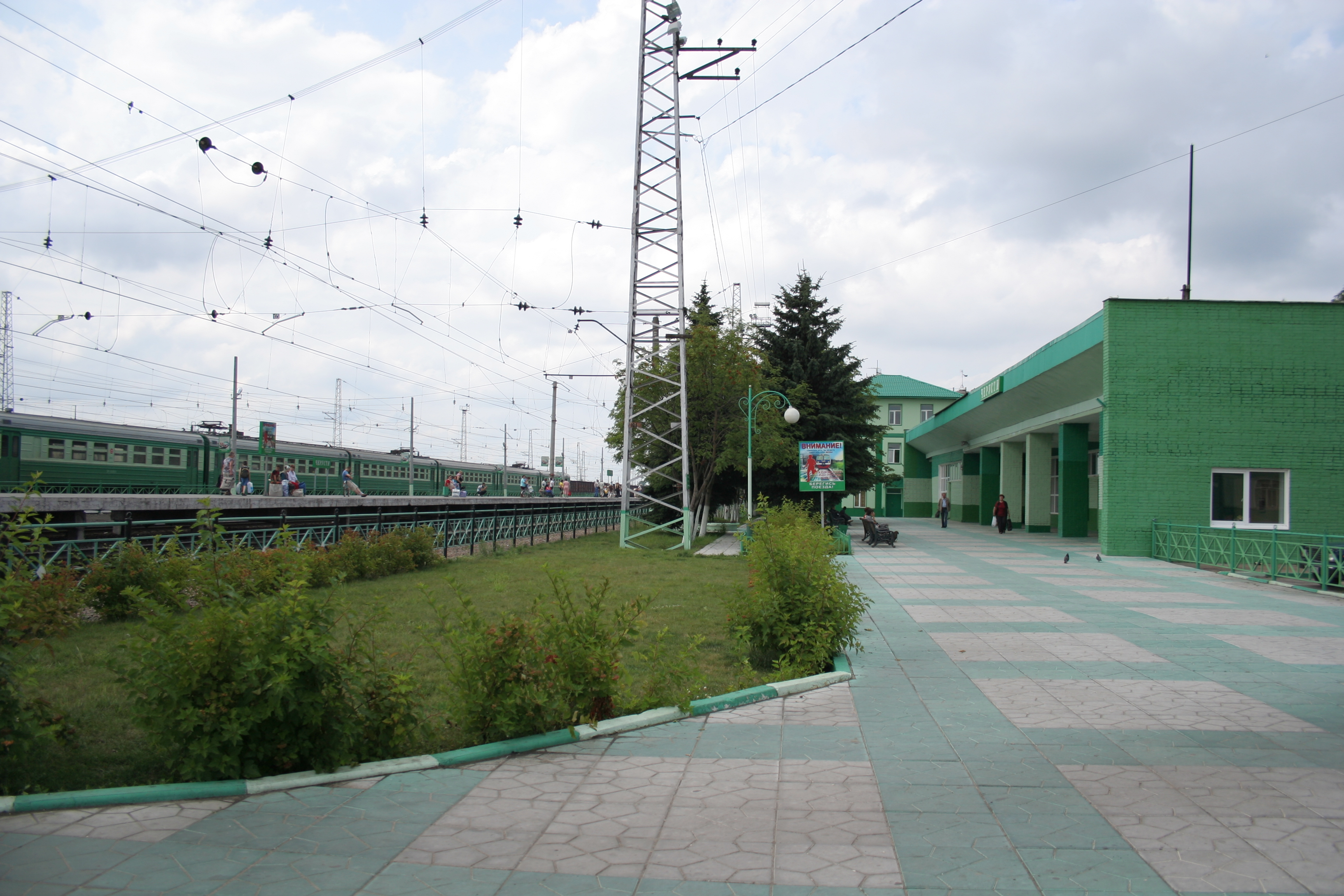 Train station in Cherusti, Moscow Oblast